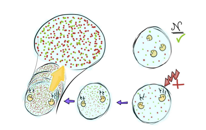 En la imatge es mostren els dos casos descrits fins ara: El primer cas marcat amb “N” correspon a la normalitat, és a dir, hi ha una quantitat d’enzims (marcats amb color groc) òptima per mantenir els nivells de GAG (marcats amb color verd i vermell). El segon cas marcat amb una aspa vermella correspon al cas patològic; disminució de la quantitat d’enzims IDS i acumulació de GAG que proquen un augment de la mida del lisosoma.